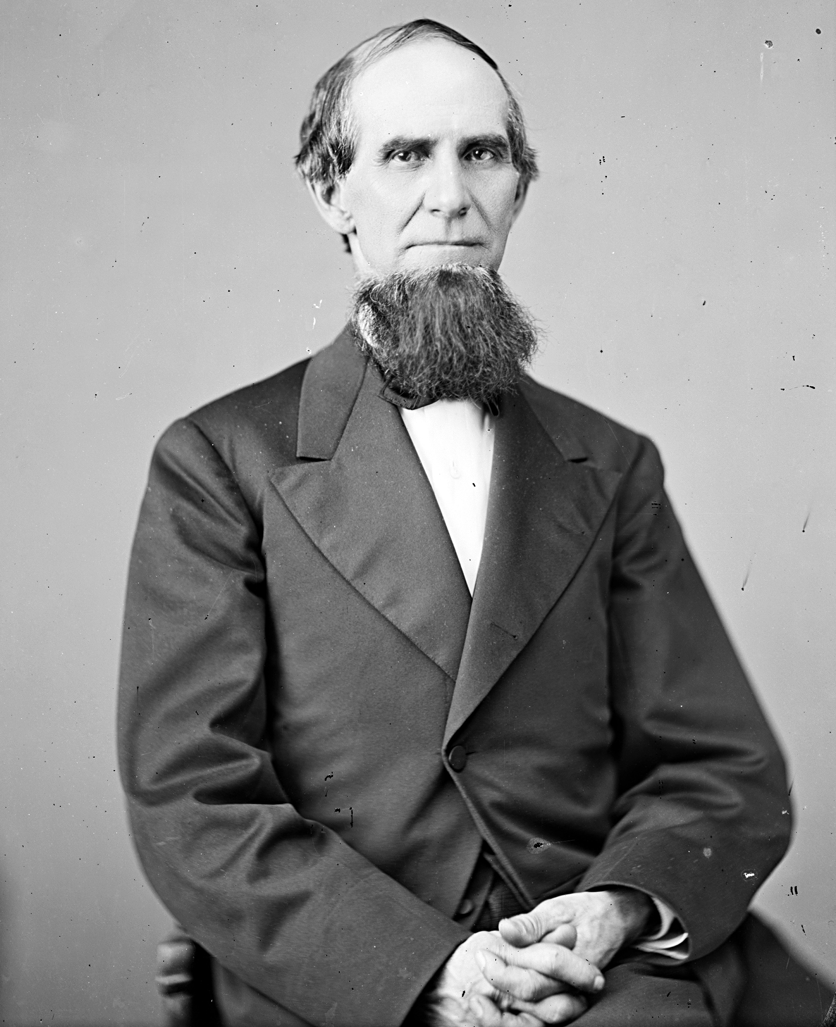 Christopher Thomas, US Representative from Virginia